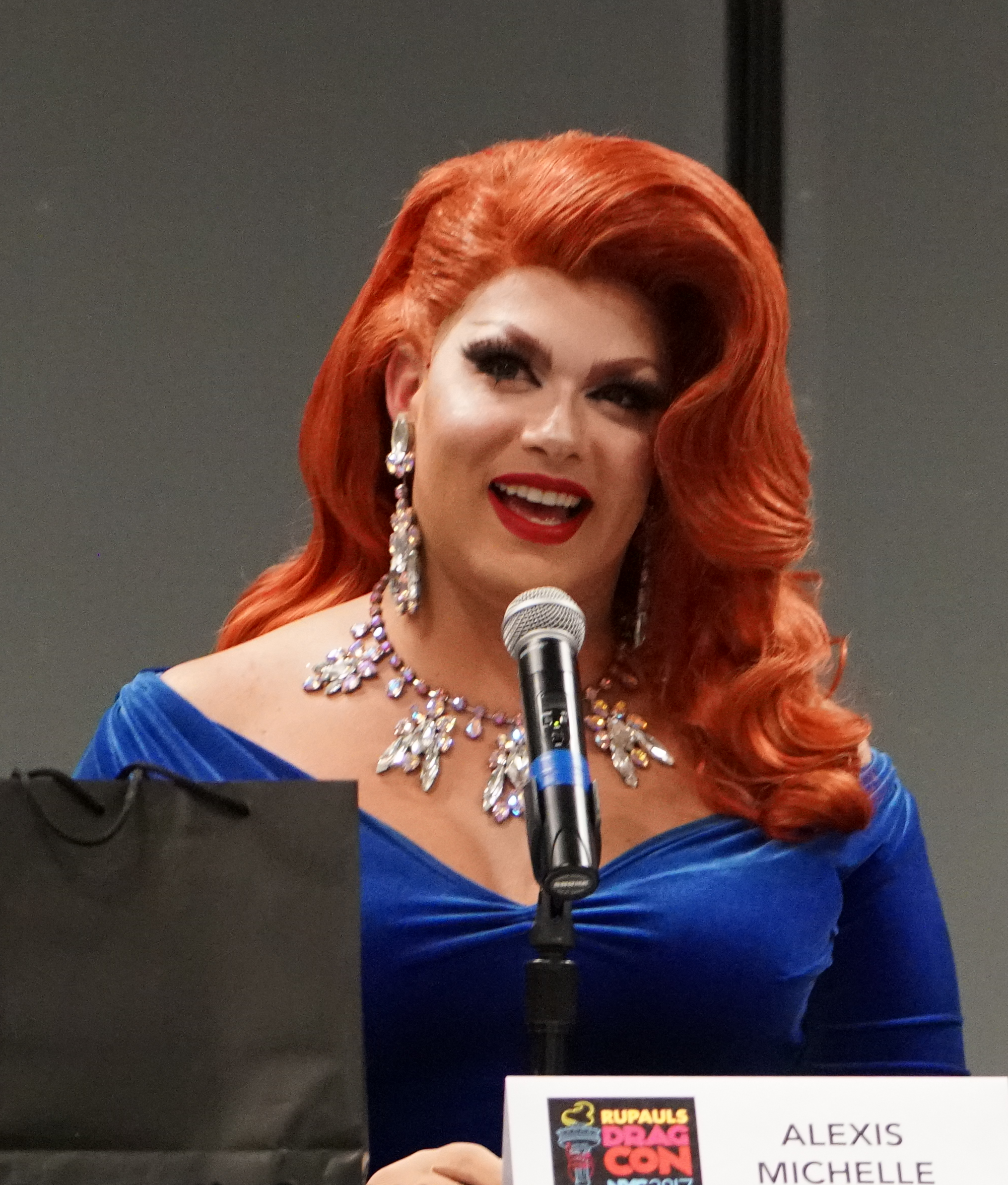 Alexis Michelle and Ginger Minj at RuPaul's DragCon in NYC in 2017